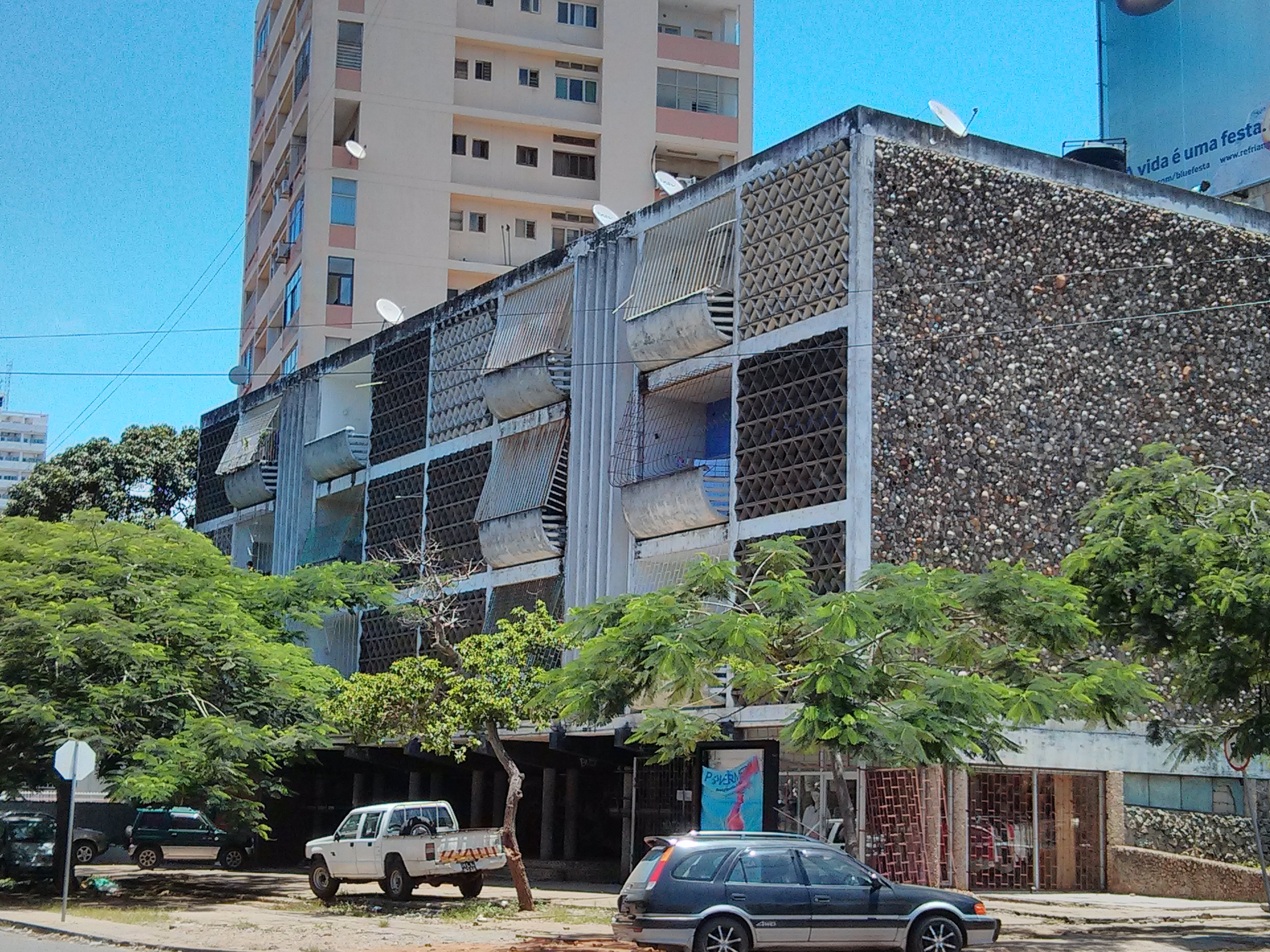 Building "Dragão" in Maputo, Mozambique